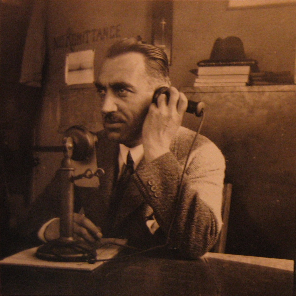 A portrait of Italian-American aerospace engineer and aviation pioneer Enea Bossi sr, in the 1930s.